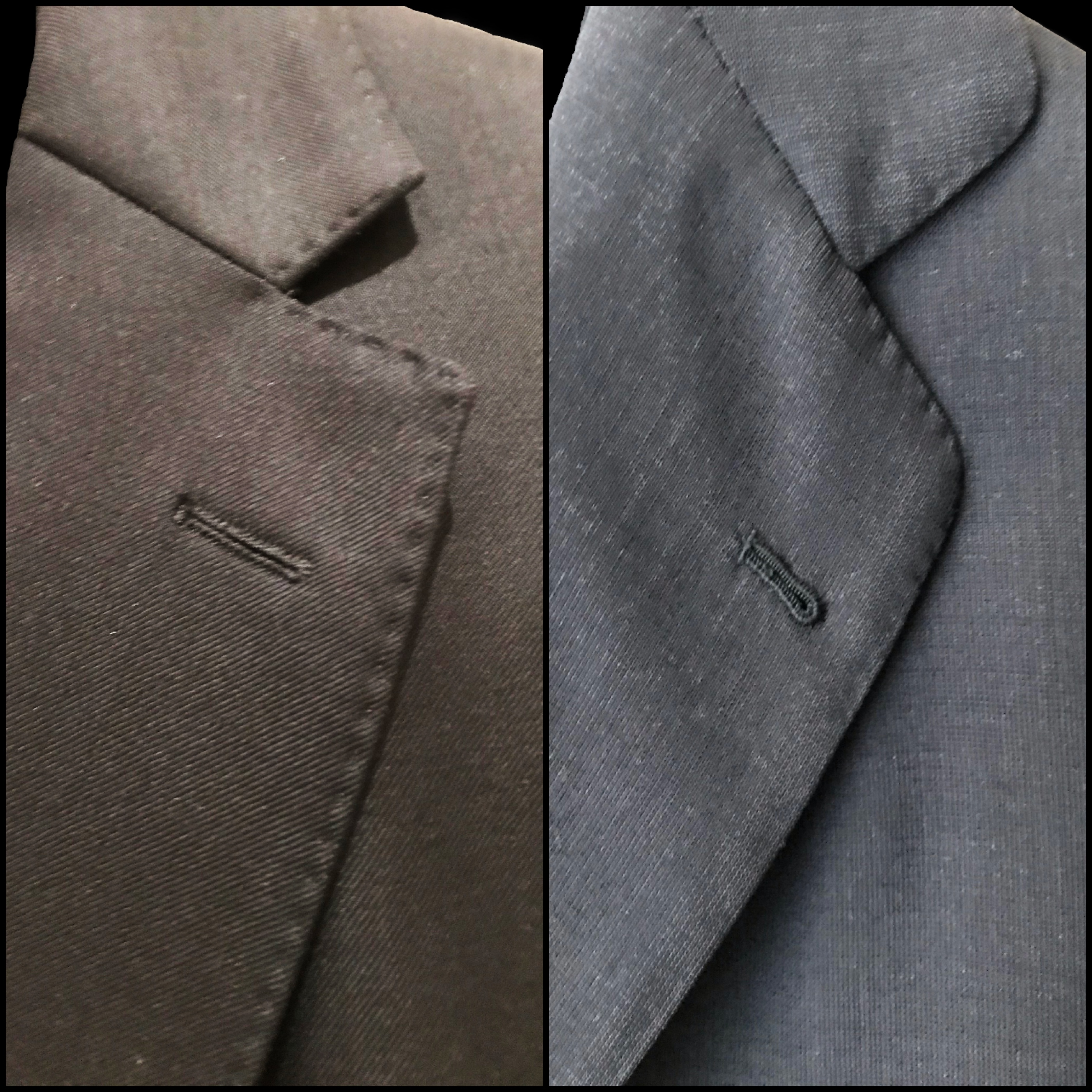 Comparison of men's notched suit or blazer lapels. To the left, the English cut. To the right, the more conservative Spanish cut. The English notched lapel is by far the most commonly seen nowadays. It is rare to see a Spanish notched lapel outside Spain. The Spanish cut tends to be wider than the English, and has the particularity of being more rounded, whereas the English has 90 degree corners.[1] The Spanish lapel has also been described as a downward sloping notch, with "a rounded off tip and an 80 degree cran, one of the standout characteristics of the Spanish jacket".[2]